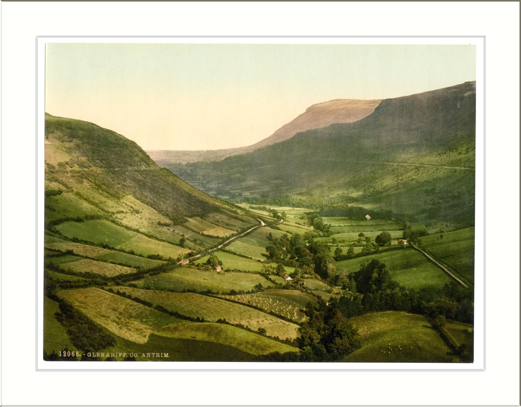 Glenariff. Co. Antrim Ireland